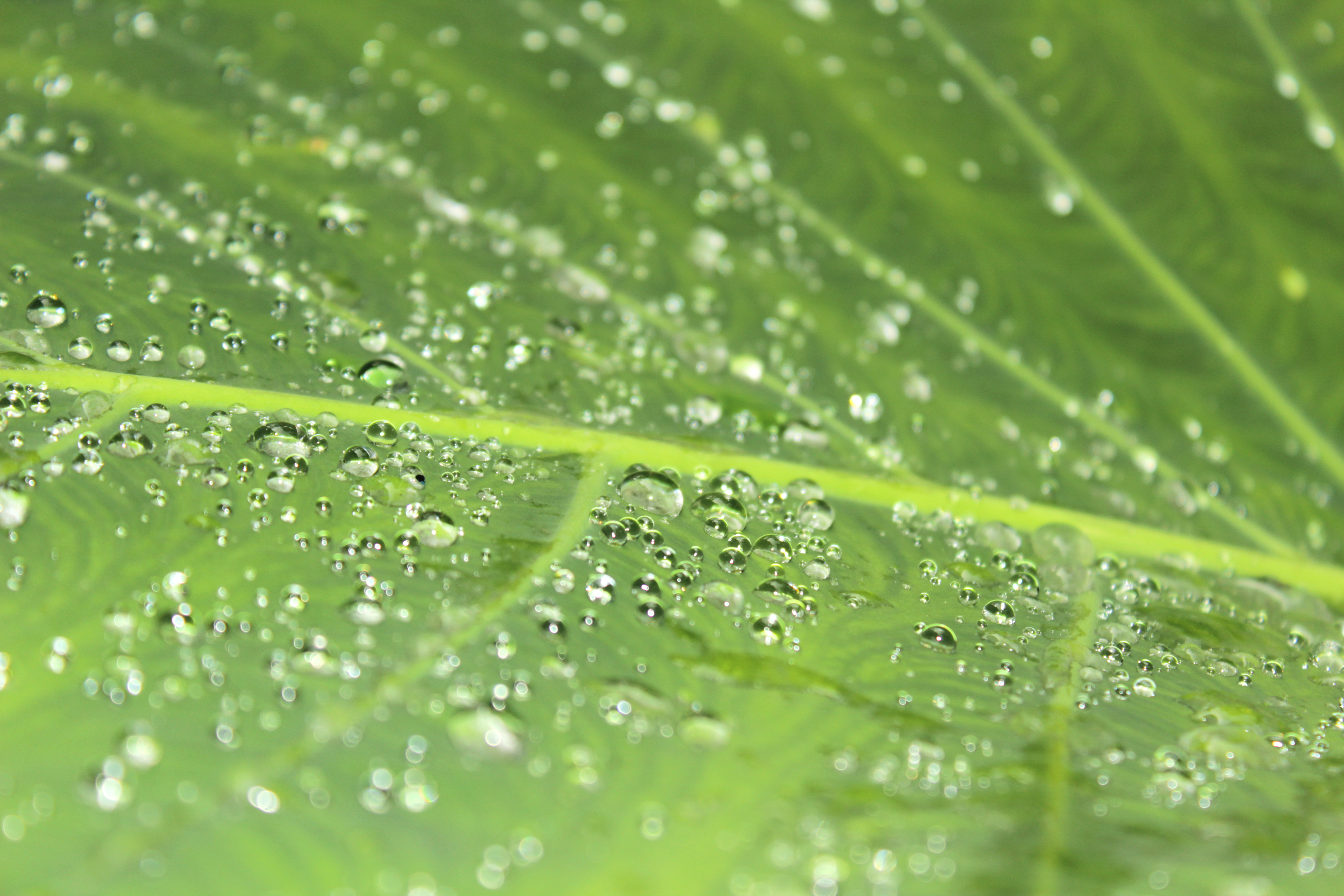 Colocasia leaf. Photographed near Kanjirappally, Kerala, India